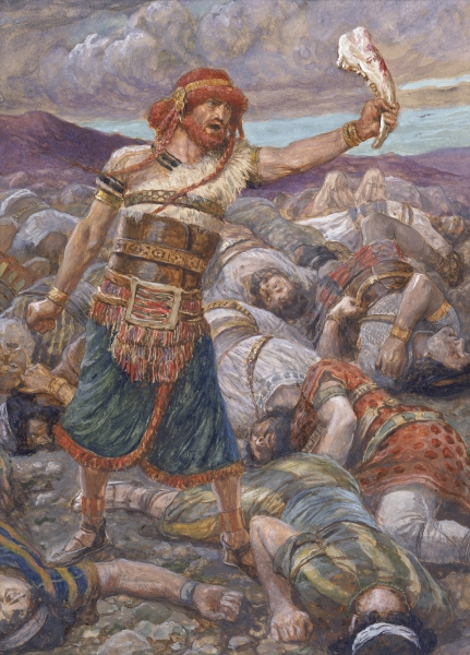 Samson Slays a Thousand Men, c. 1896-1902, by James Jacques Joseph Tissot (French, 1836-1902) and followers, gouache on board, 9 x 6 5/16 in. (22.9 x 16.1 cm), at the Jewish Museum, New York